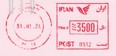 Meter stamp catalog image, Iran type C5